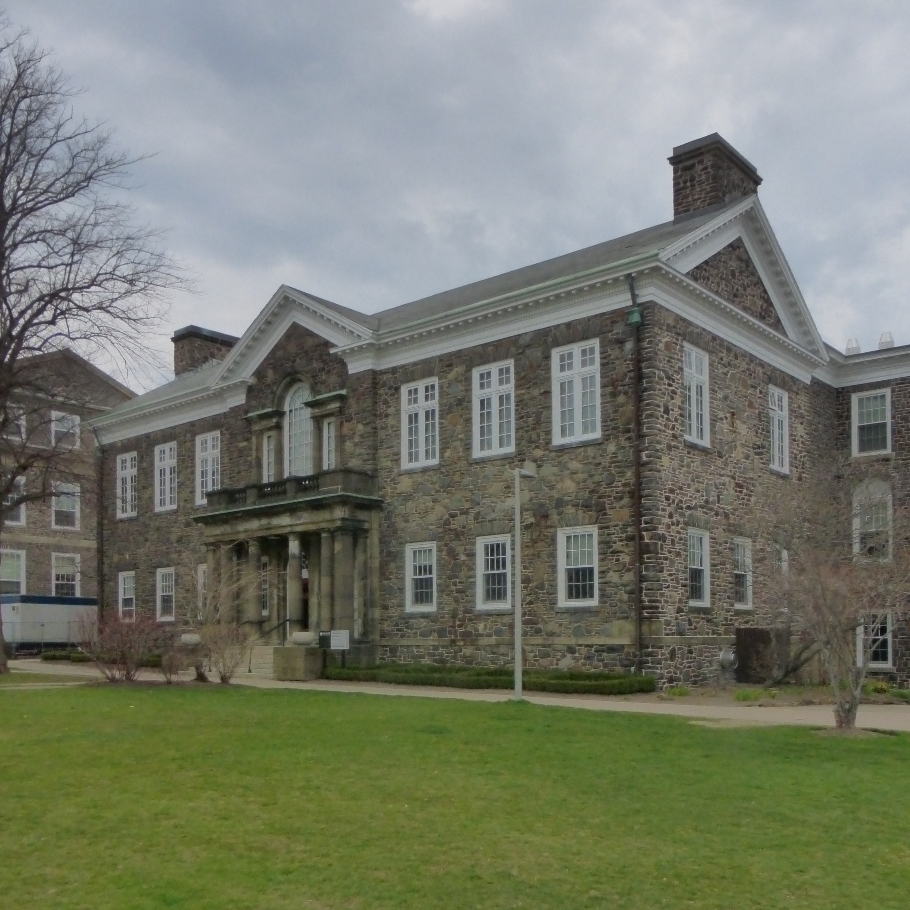 MacDonald Building, Dalhousie University. It was originally built as the university library, designed by Andrew R. Cobb.It is now called the MacDonald Science Building